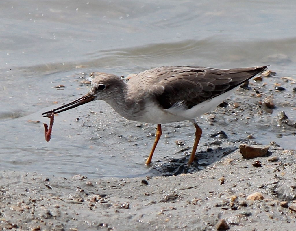 Xenus cinereus (Terek Sandpiper,left) eating ragworm in Shōnai River Japan